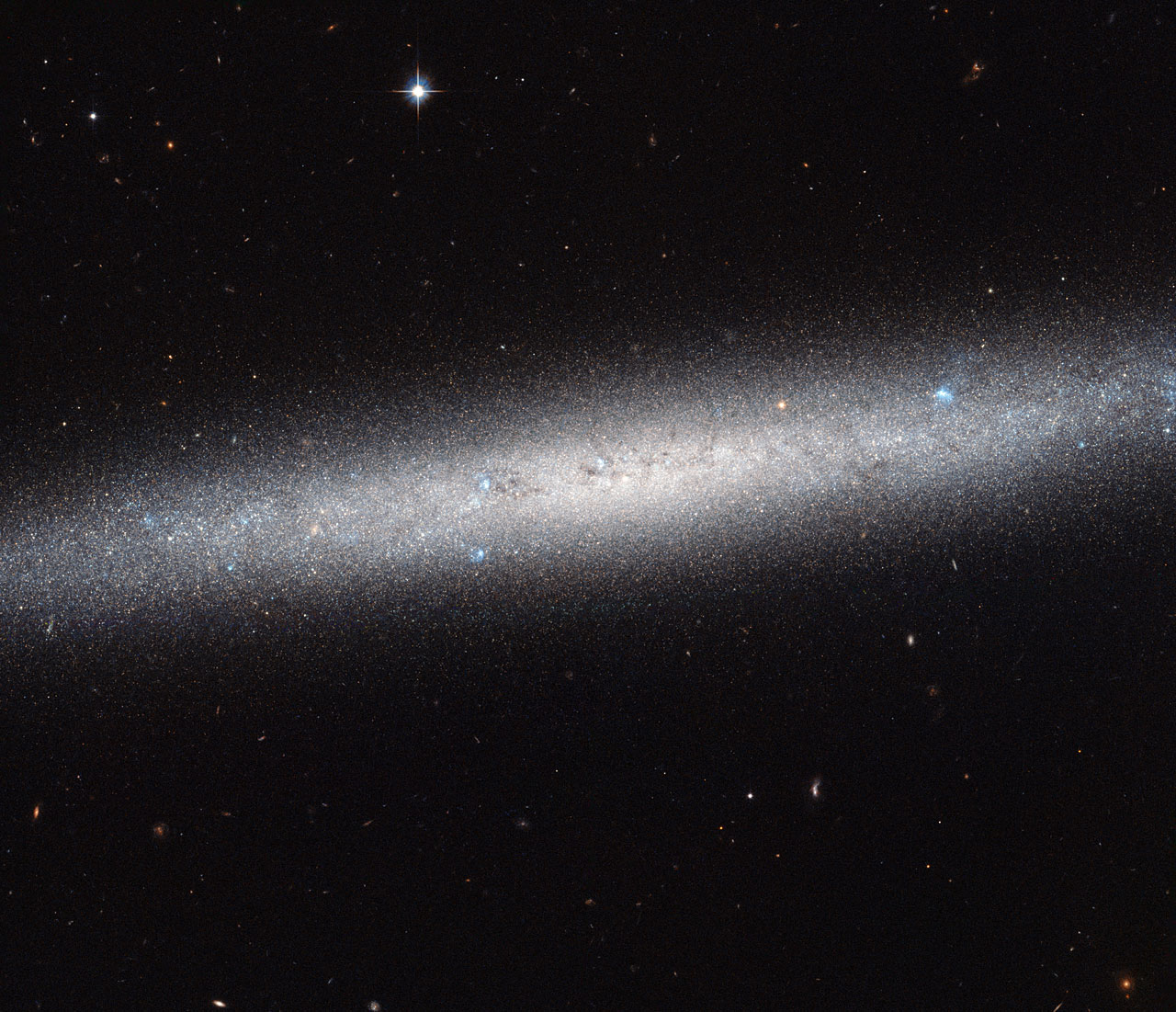 This NASA/ESA Hubble Space Telescope image shows an edge-on view of the spiral galaxy NGC 5023. Due to its orientation we cannot appreciate its spiral arms, but we can admire the elegant profile of its disc. The galaxy lies over 30 million light-years away from us. NGC 5023 is part of the M51 group of galaxies. The brightest galaxy in this group is Messier 51, the Whirlpool Galaxy, which has been captured by Hubble many times. NGC 5023 is less fond of the limelight and seems rather unsociable in comparison — it is relatively isolated from the other galaxies in the group. Astronomers are particularly interested in the vertical structure of discs like these. By analysing the structure above and below the central plane of the galaxy they can make progress in understanding galaxy evolution. Astronomers are able to analyse the distribution of different types of stars within the galaxy and their properties, in particular how well evolved they are on the Hertzsprung–Russell Diagram — a scatter graph of stars that shows their evolution. NGC 5023 is one of six edge-on spiral galaxies observed as part of a study using Hubble’s Advanced Camera for Surveys. They study this vertical distribution and find a trend which suggests that heating of the disc plays an important role in producing the stars seen away from the plane of the galaxy. In fact, NGC 5023 is pretty popular when it comes to astronomers, despite its unsociable behaviour. The galaxy is also one of 14 disc galaxies that are part of the GHOSTS survey — a survey which uses Hubble data to study galaxy halos, outer discs and star clusters. It is the largest study to date of star populations in the outskirts of disc galaxies. The incredible sharp sight of Hubble has allowed scientist to count more than 30 000 individual bright stars in this image. This is only a small fraction of the several billion stars that this galaxy contains, but the others are too faint to detect individually even with Hubble.